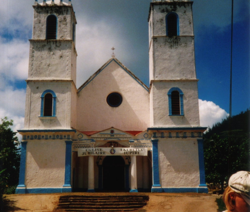 Church Saint-Michel in Rikitea on Mangareva Island, Gambier Islands, French Polynesia